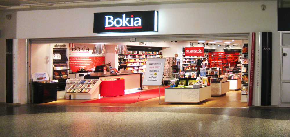 Photo of the entrance to Swedish bookstore Bokia in Frölunda Torg.